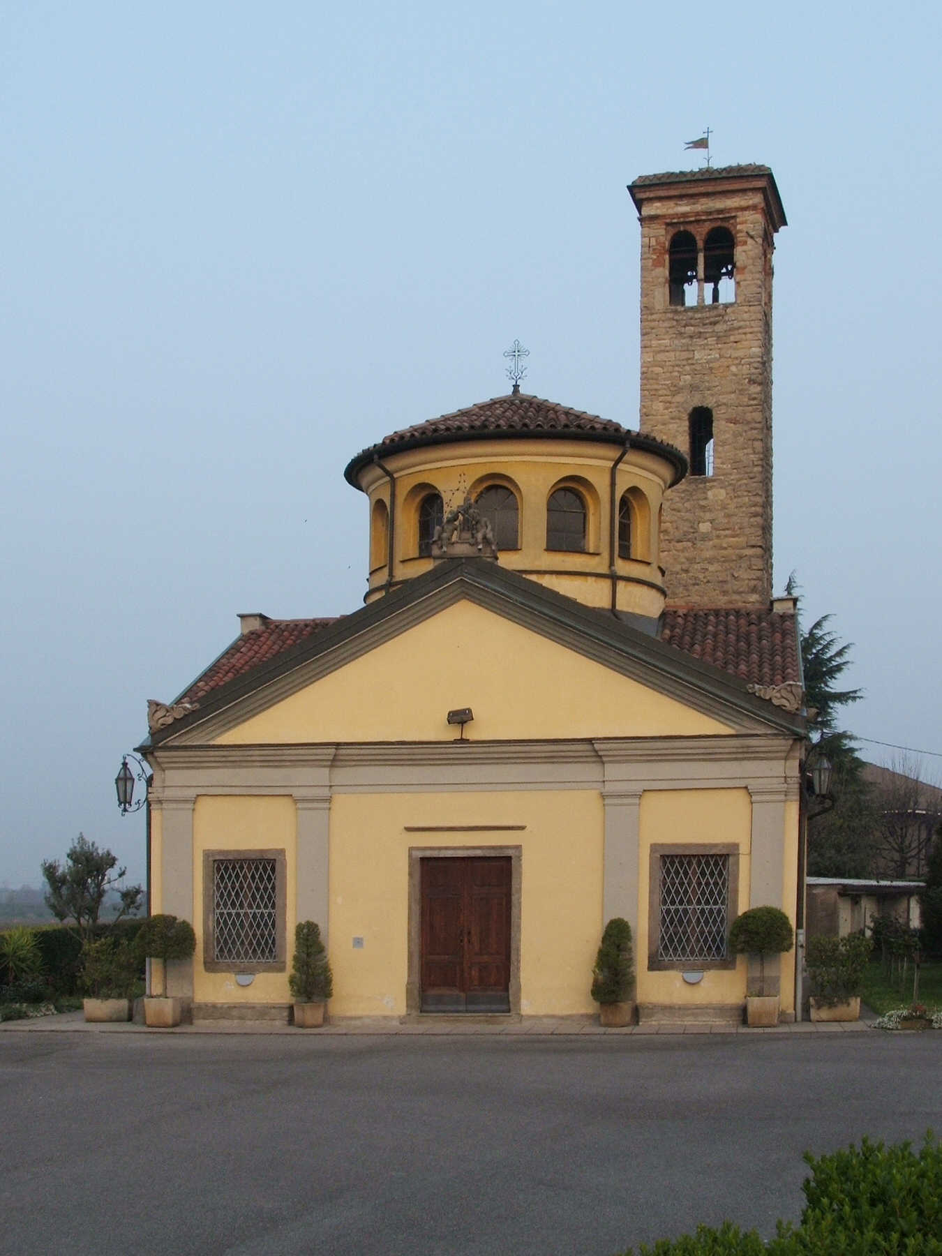 Bergamo - Italy - Church of Saint Peter, Colognola